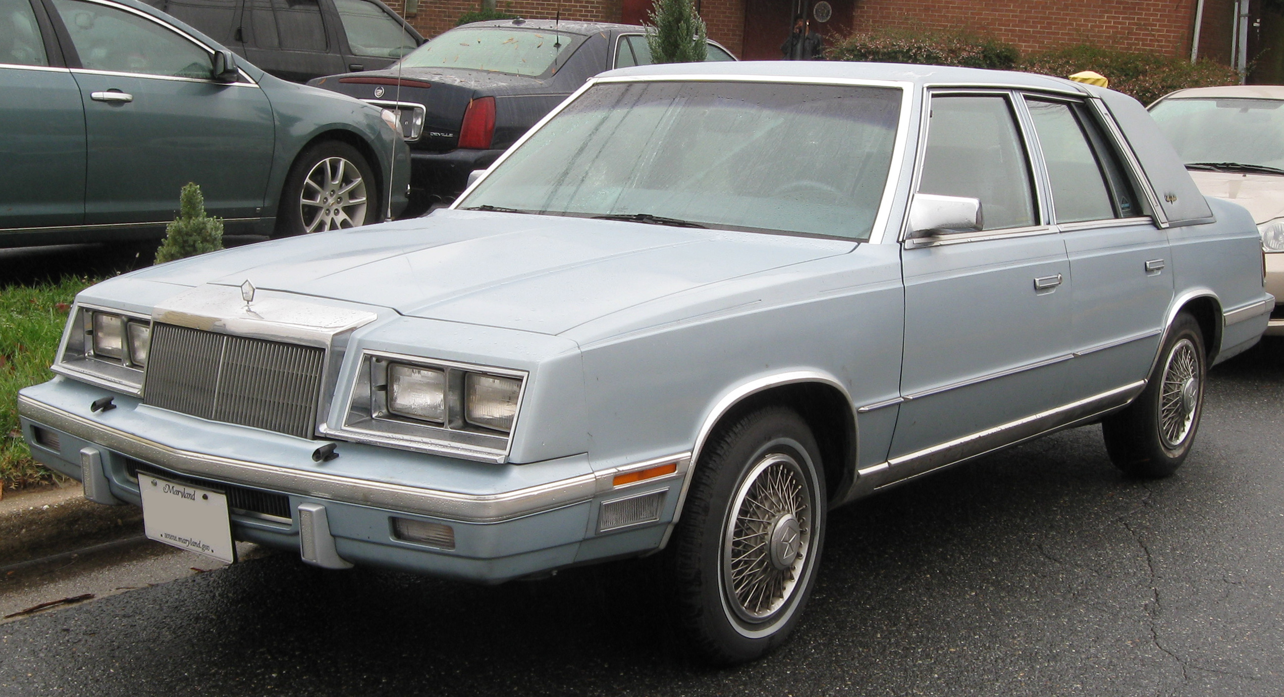 1983-1988 Chrysler New Yorker photographed in College Park, Maryland, USA.